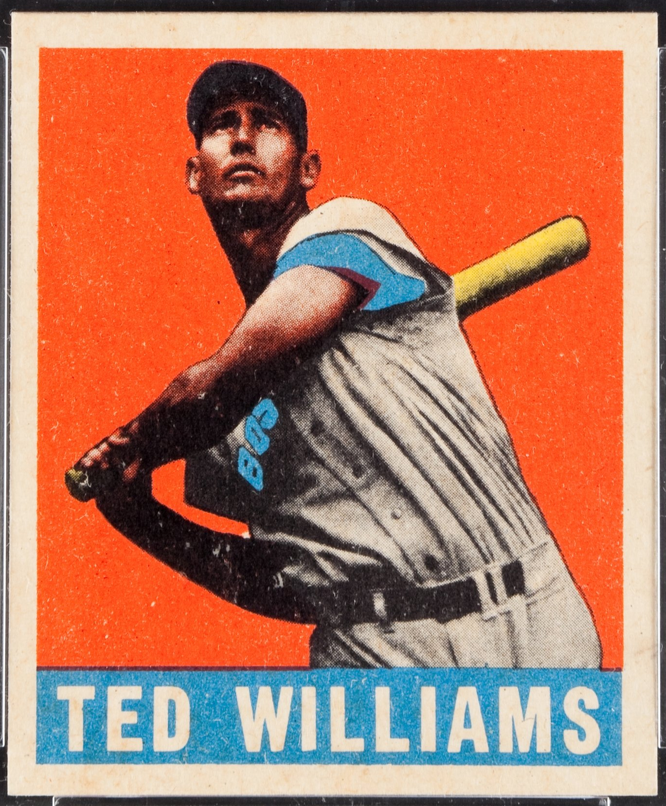 1948 Leaf Ted Williams #76